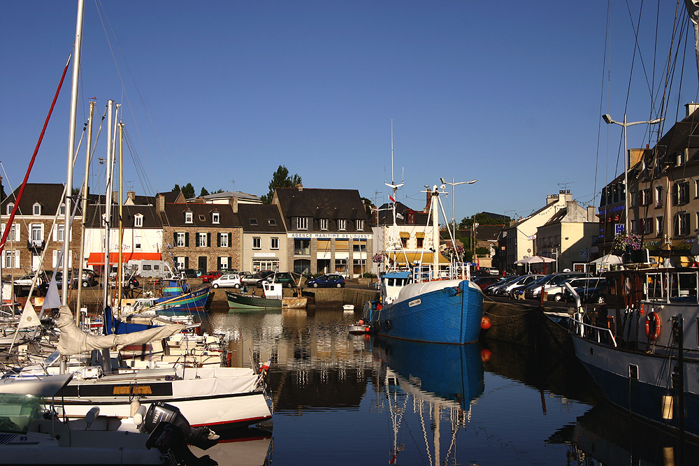 Harbour of Paimpol, France